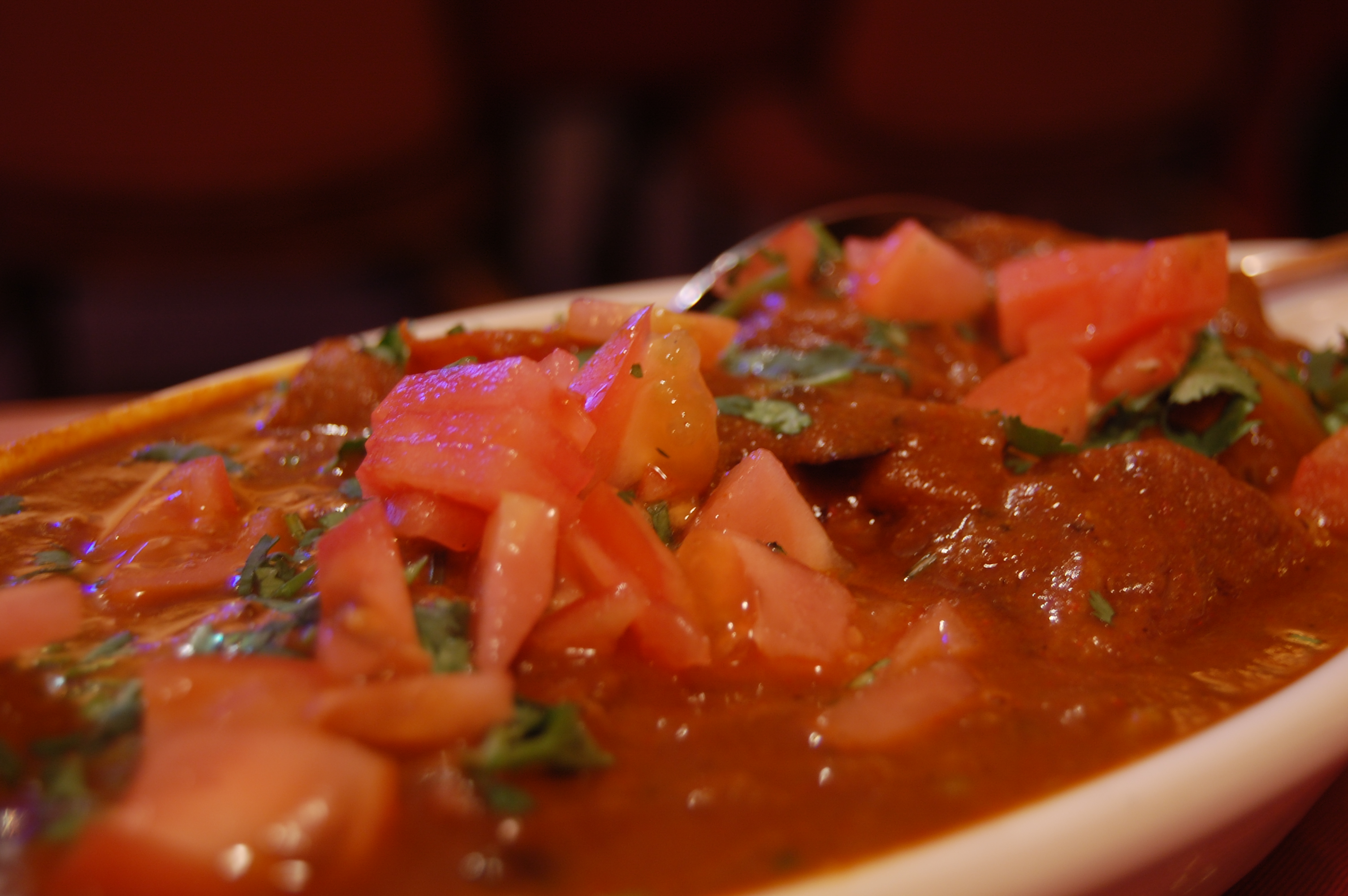 Mutton Gosh